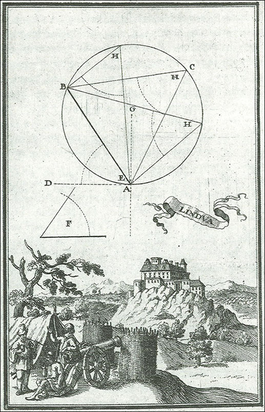 Lendava Castle